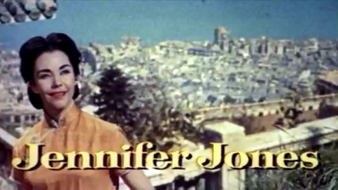 Jennifer Jones in Love Is A Many Splendored Thing - Henry King 1955